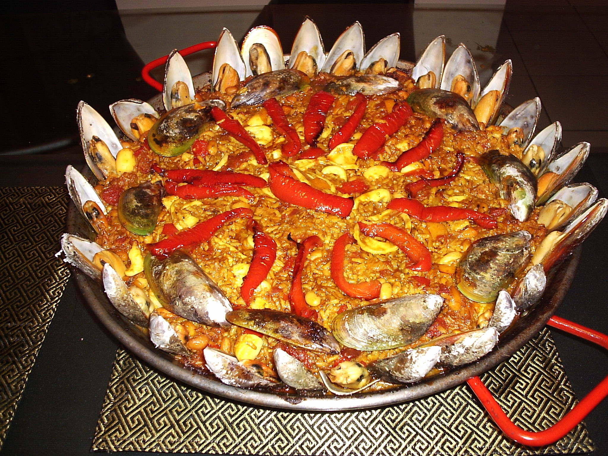 A mixed, red paella garnished with red bell peppers and mussels